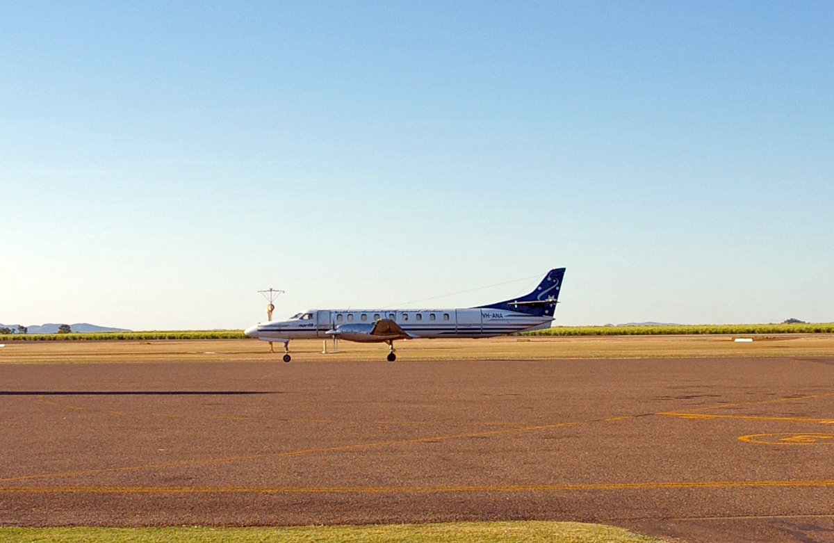 Airnorth Fairchild Metro 23 (Kununurra Airport)